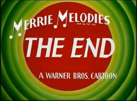 One of the ending sequences for the Merrie Melodies series, used for reissues of cartoons in the 1952-1953 season.